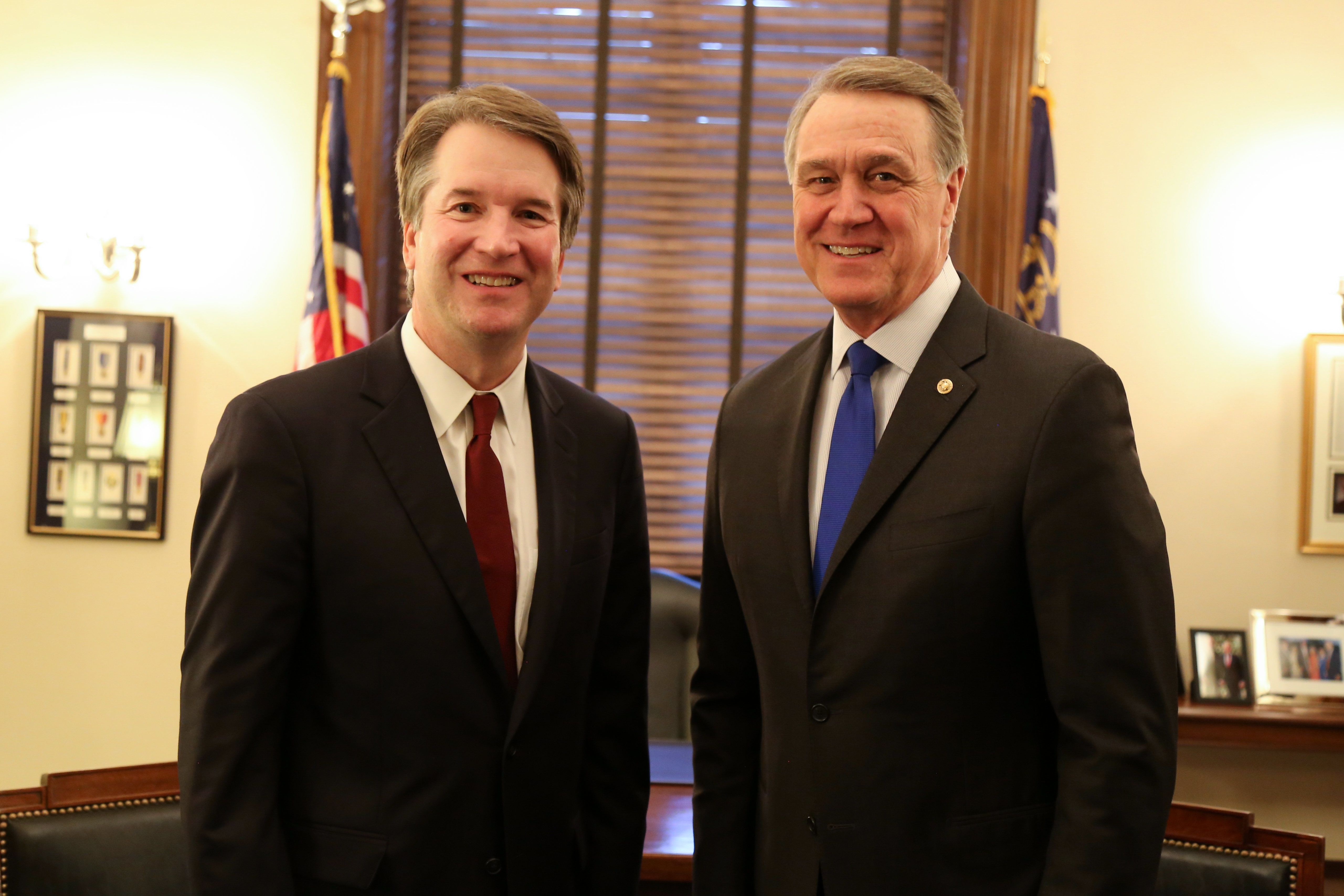 Senator David Perdue with Judge Brett Kavanaugh